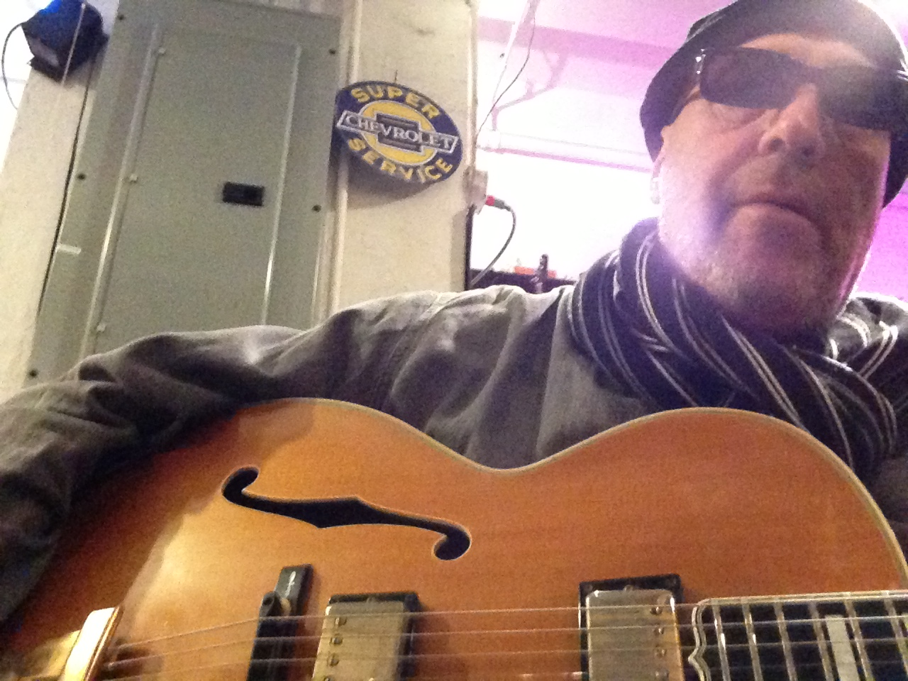 Guitarist Chuck Hammer, NYC